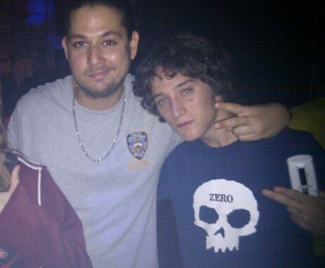 israeli rapper ortega with fans